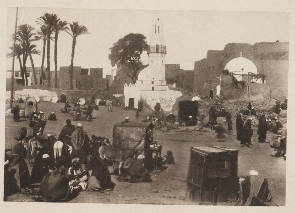 People milling about in a village in Egypt.